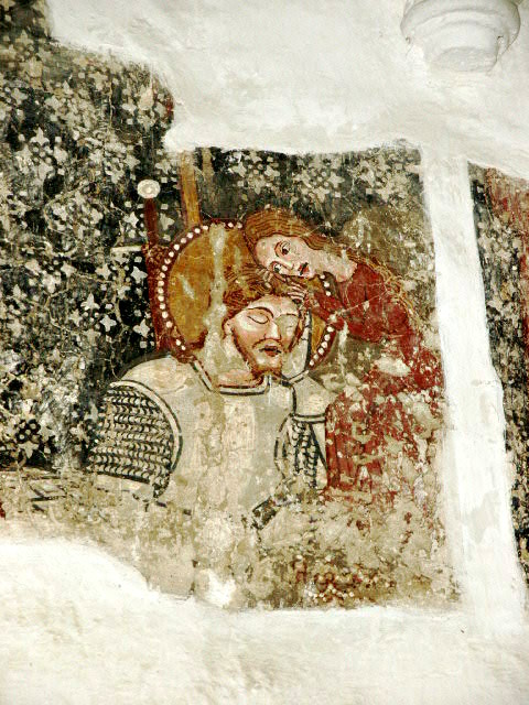 Unitarian Church in Székelyderzs, Transylvania, Romania. Listed on UNESCO World Heritage List.